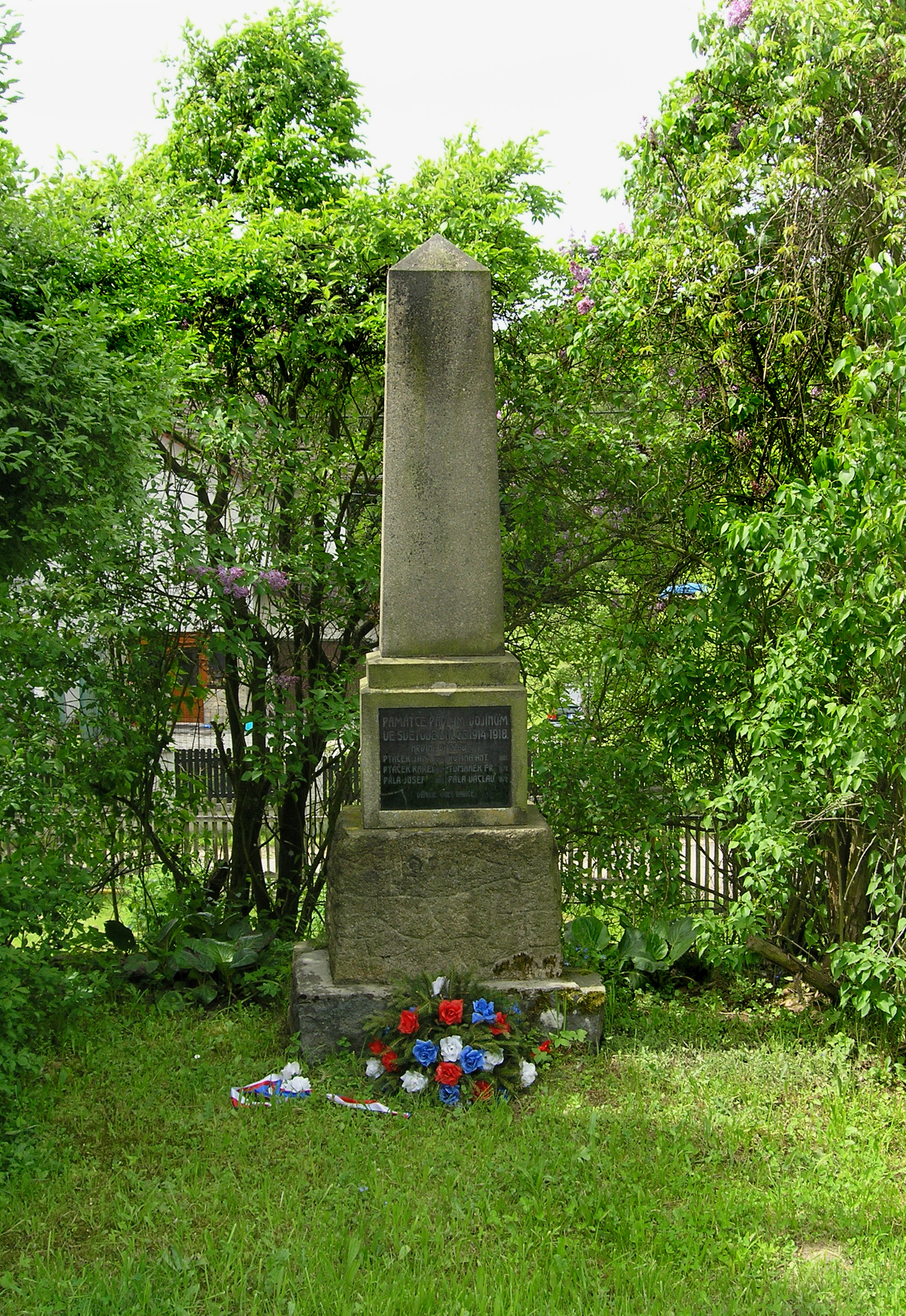 World War I memorial in Babice, part of Řehenice, Czech Republic